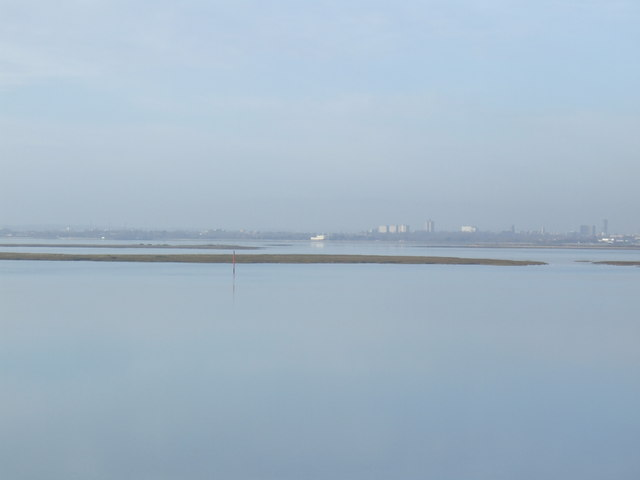 Long Island Nicely outlined at high tide in Langstone Harbour. Downtown Portsmouth in the distance.